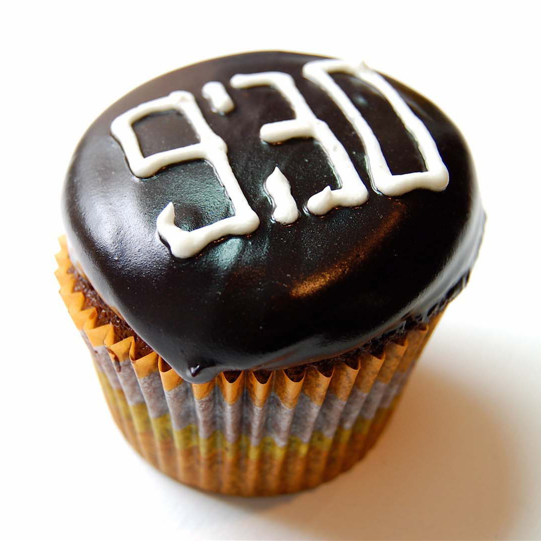 A 9:30 Club Cupcake, made by Buzz Bakery